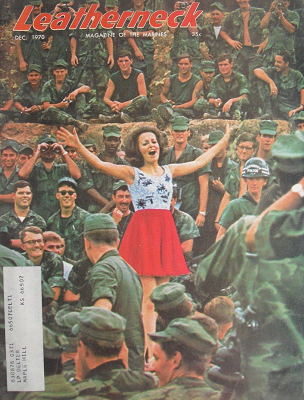 Miss Alabama 1969 Ann Fowler amidst United States Marines during an August 1970 USO tour of South Vietnam, used as the cover of the December 1970 issue of "Leatherneck", then an official publication of the United States Marine Corps.